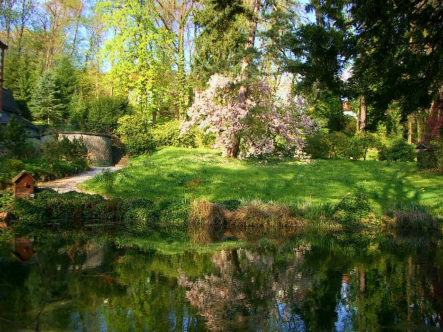 Garden of the mansion Neuhoffnungshütte in Sinn (Hesse), the former Villa Haas